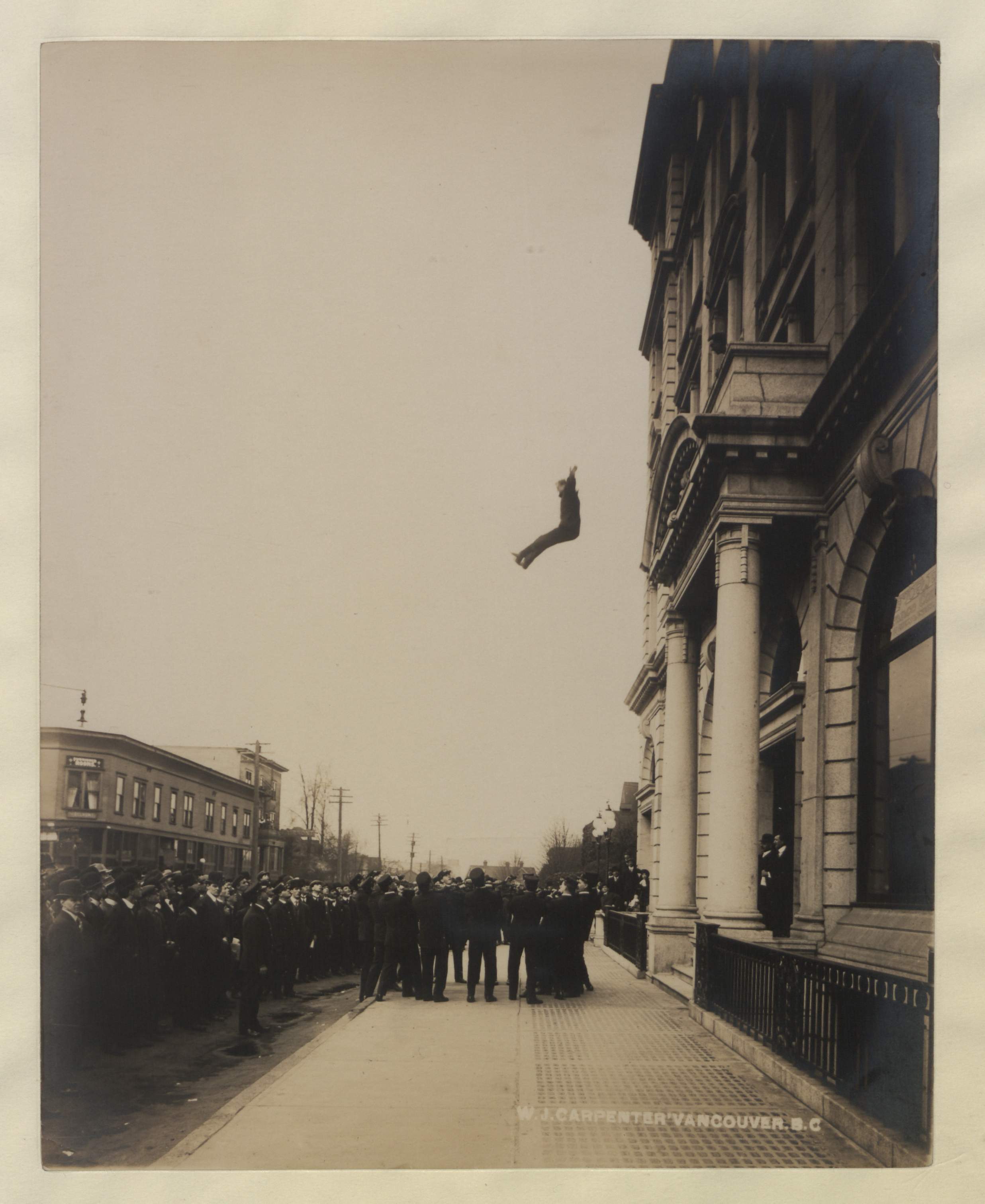 Vancouver firemen jumping into life net.